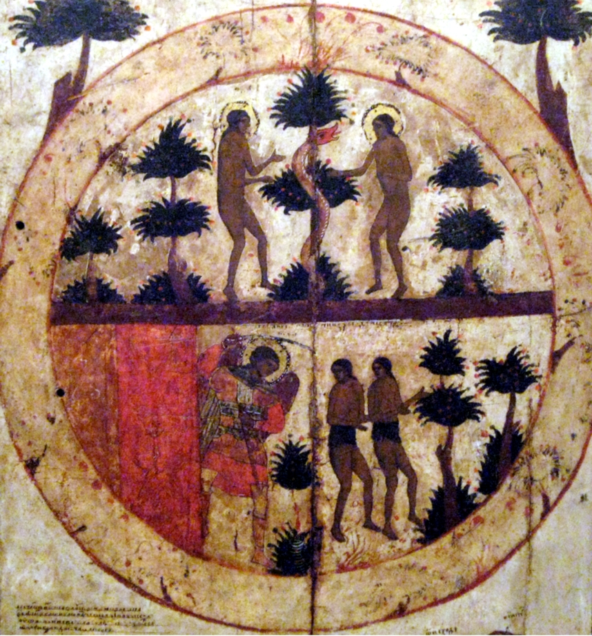 North door of iconostasis: fragment. Adam and Eve in Eden, Banishment from the Eden